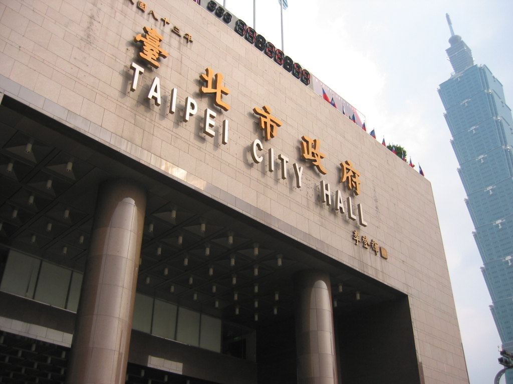 Taipei City Hall, Taipei City, Taiwan